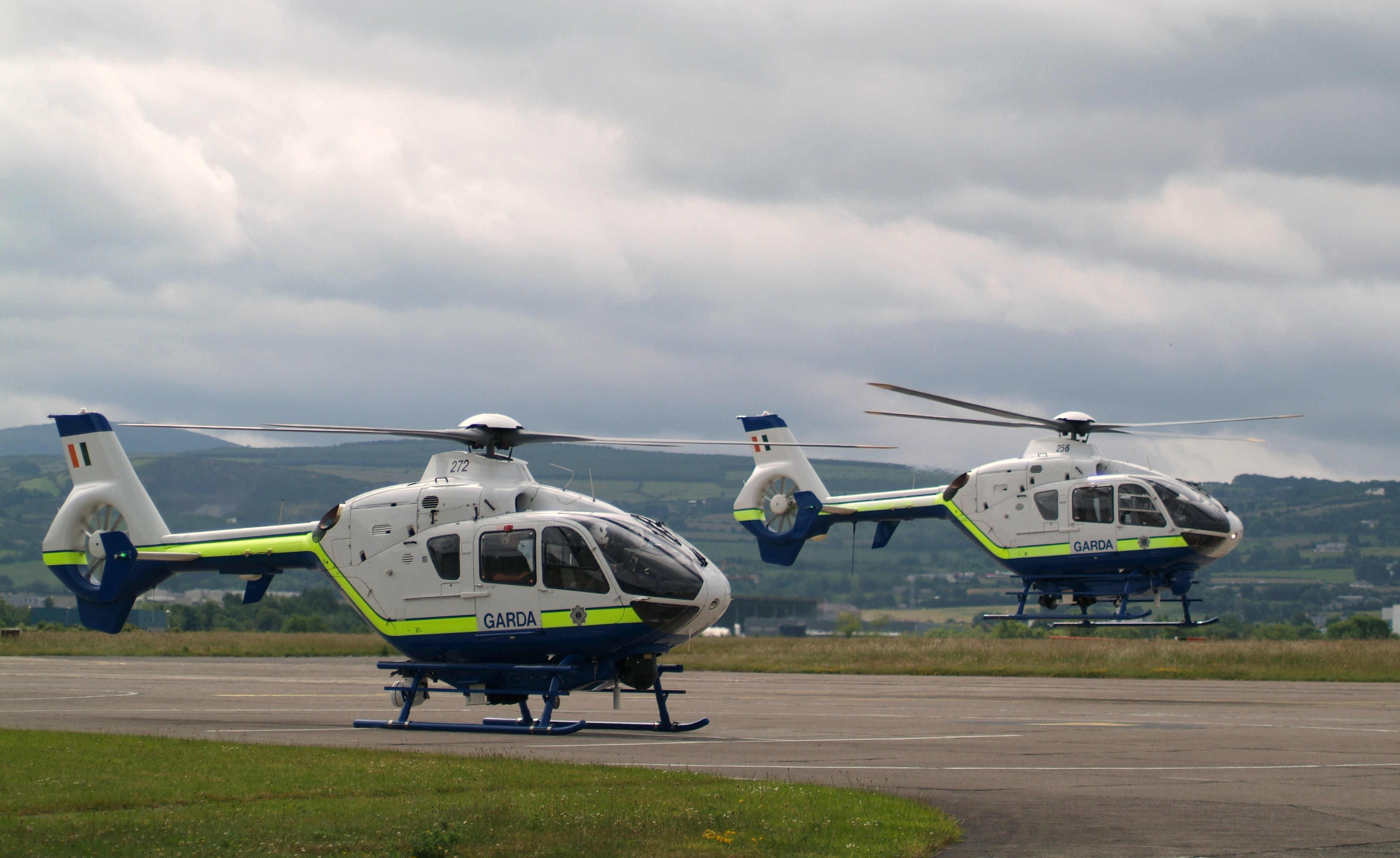 The two helicopters of the Irish Garda